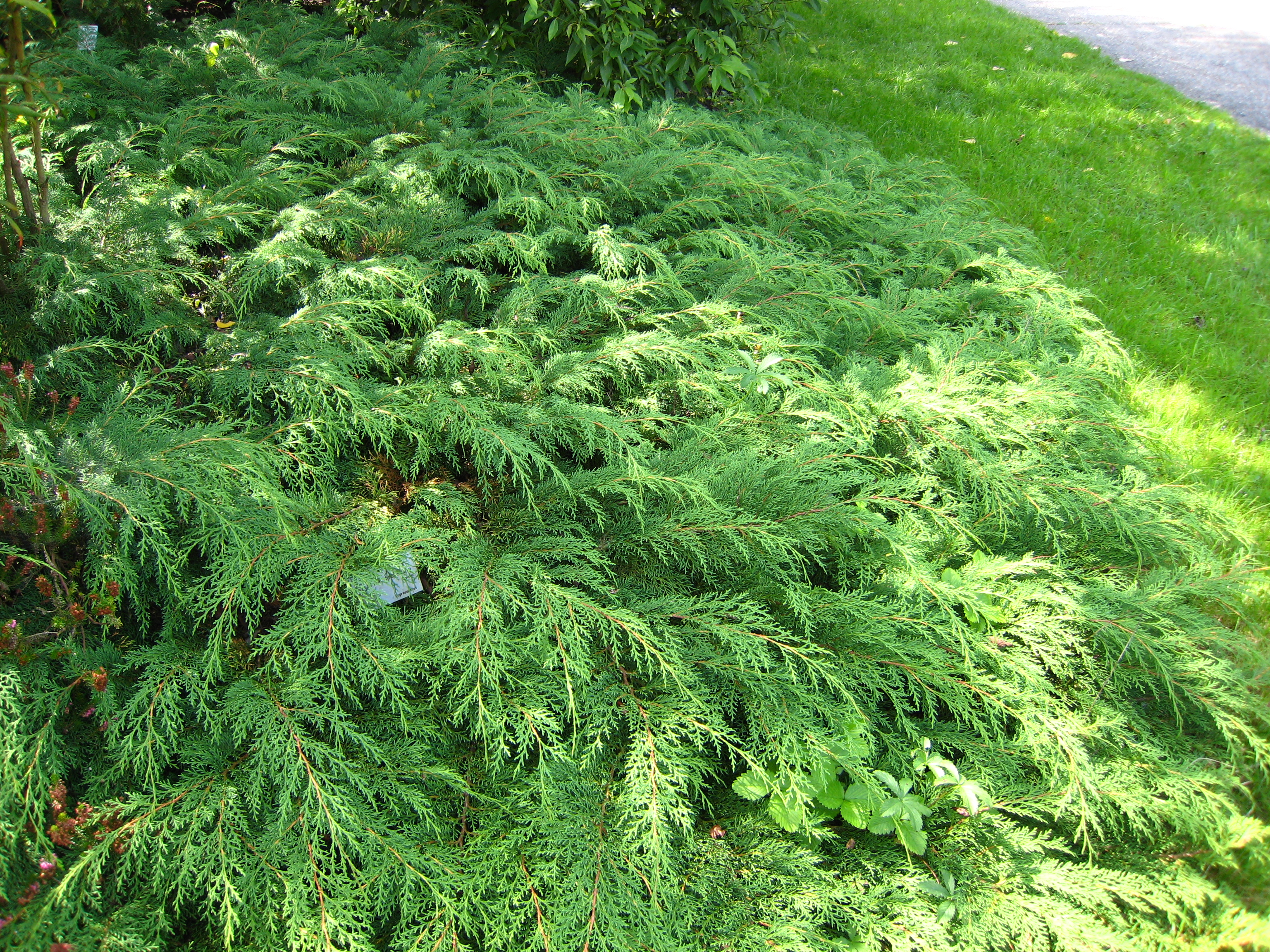 Microbiota decussata in the Arboretum de Chèvreloup in Rocquencourt